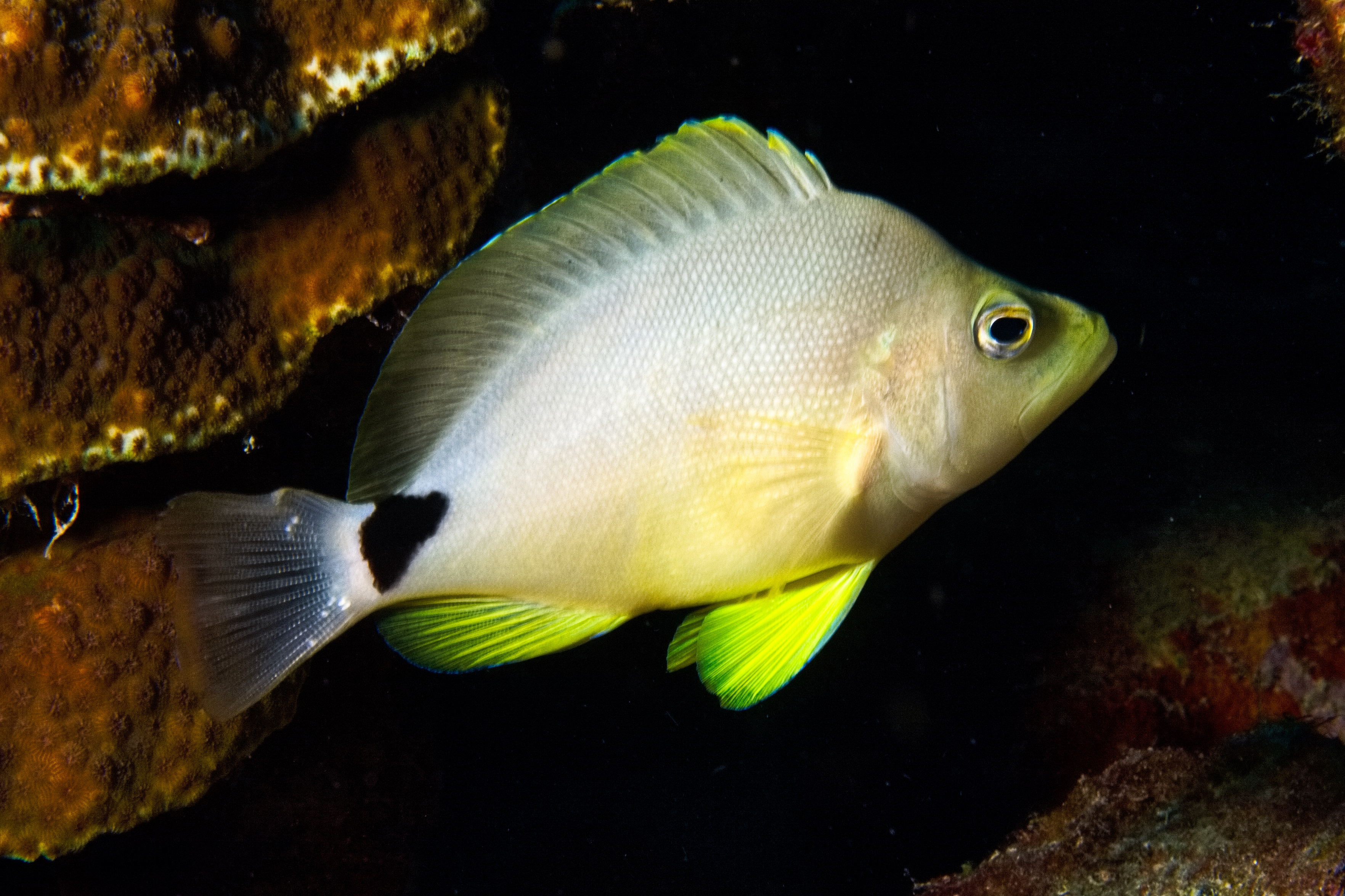 A cooperative Butter Hamlet photographed at Red Beryl dive site in Bonaire